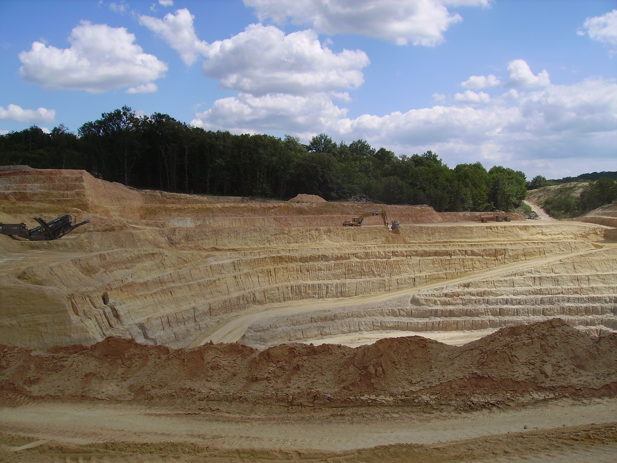 In Peyrilles